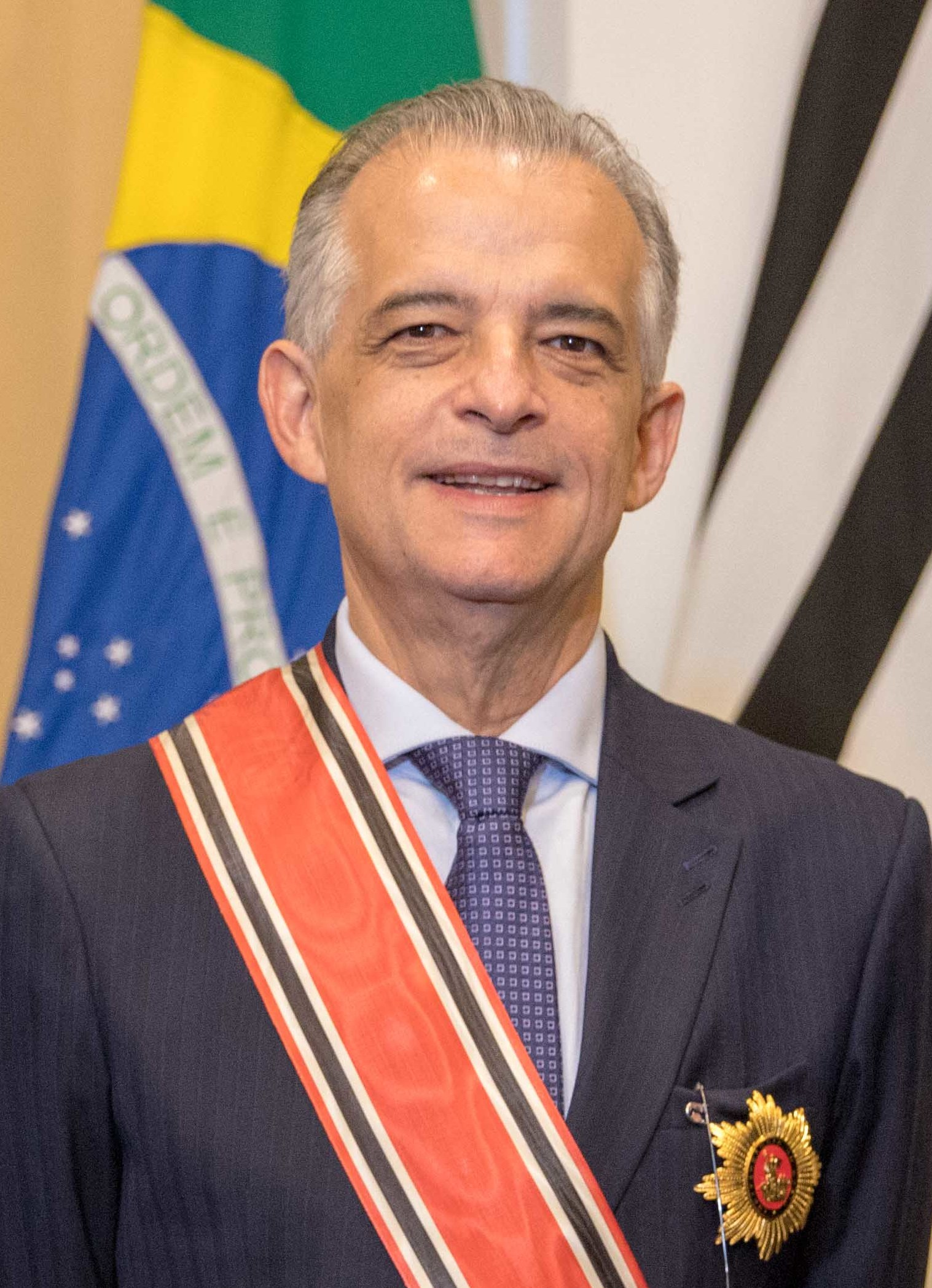 Governor Márcio França participates in the medal delivery of the Ipiranga Order.